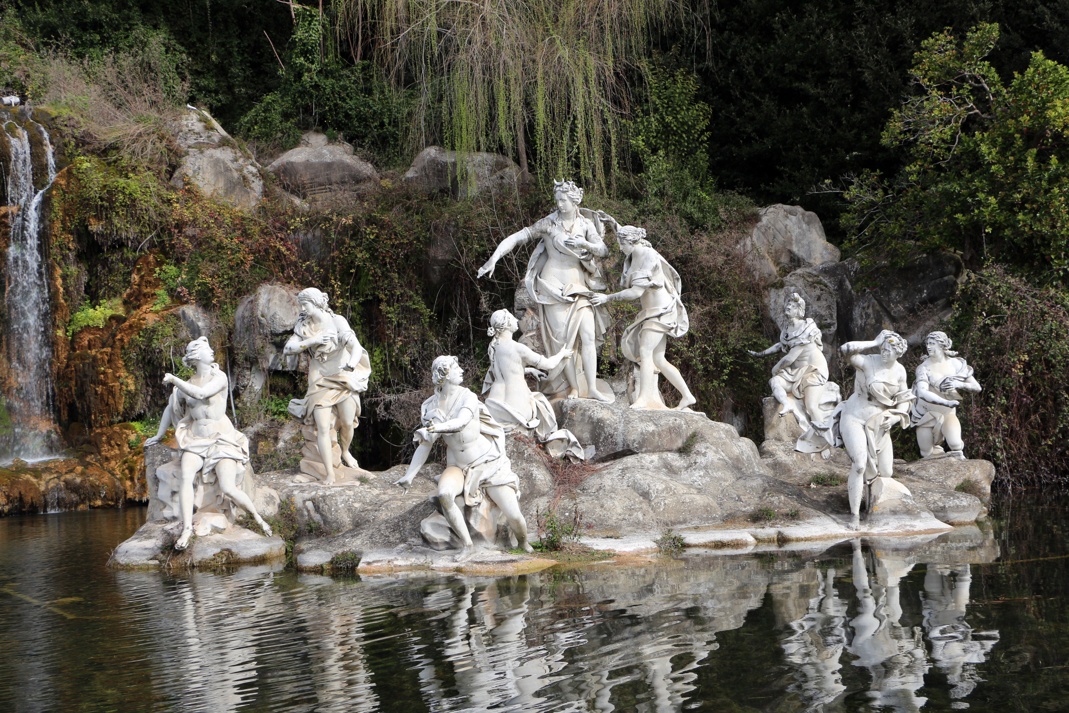 Royal Park of the Palace of Caserta